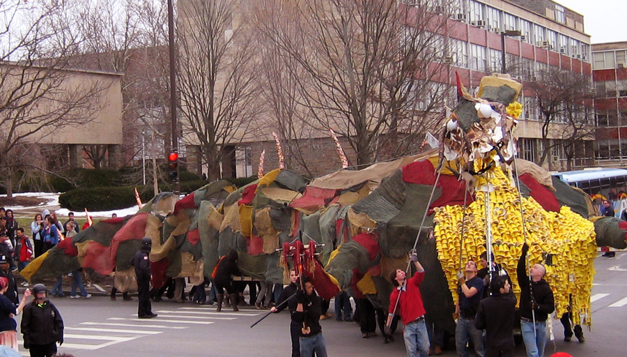 Dragon Day 2008 at Cornell University